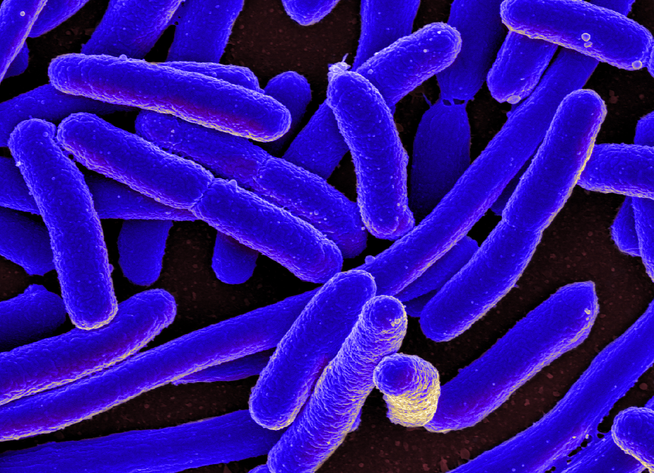 Colorized scanning electron micrograph of Escherichia coli, grown in culture and adhered to a cover slip.